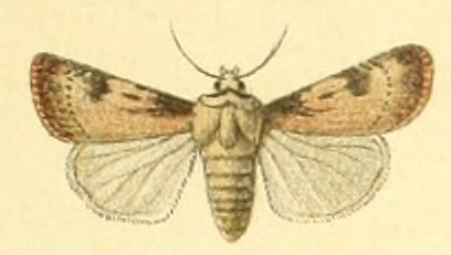 Image from Plate 6 of Die Gross-Schmetterlinge der Erde (The Macrolepidoptera of the World) Vol. 3